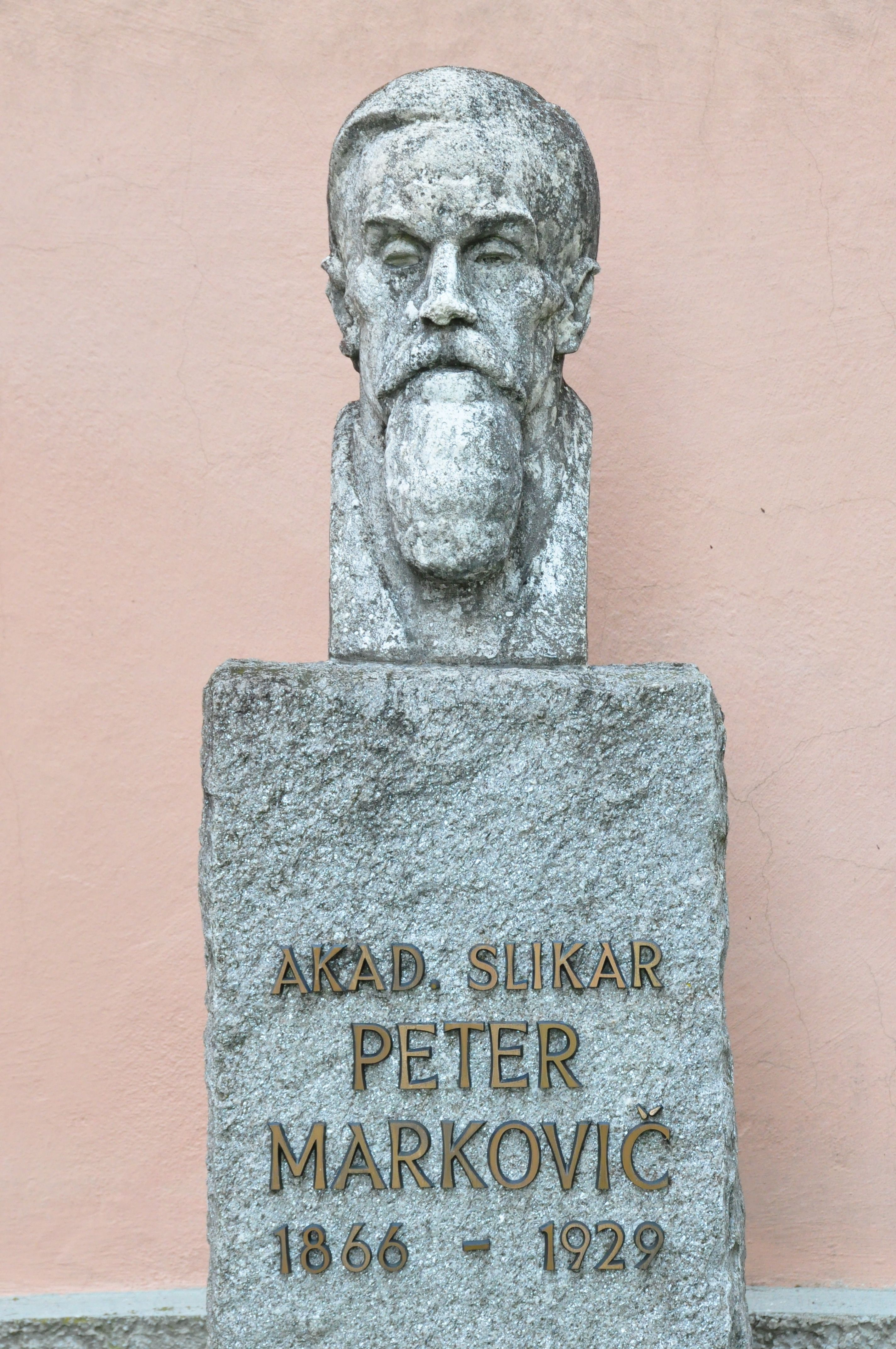 Monument of the academic painter Peter Markovic in Rosegg, market town Rosegg, district Villach Land, Carinthia, Austria, EU